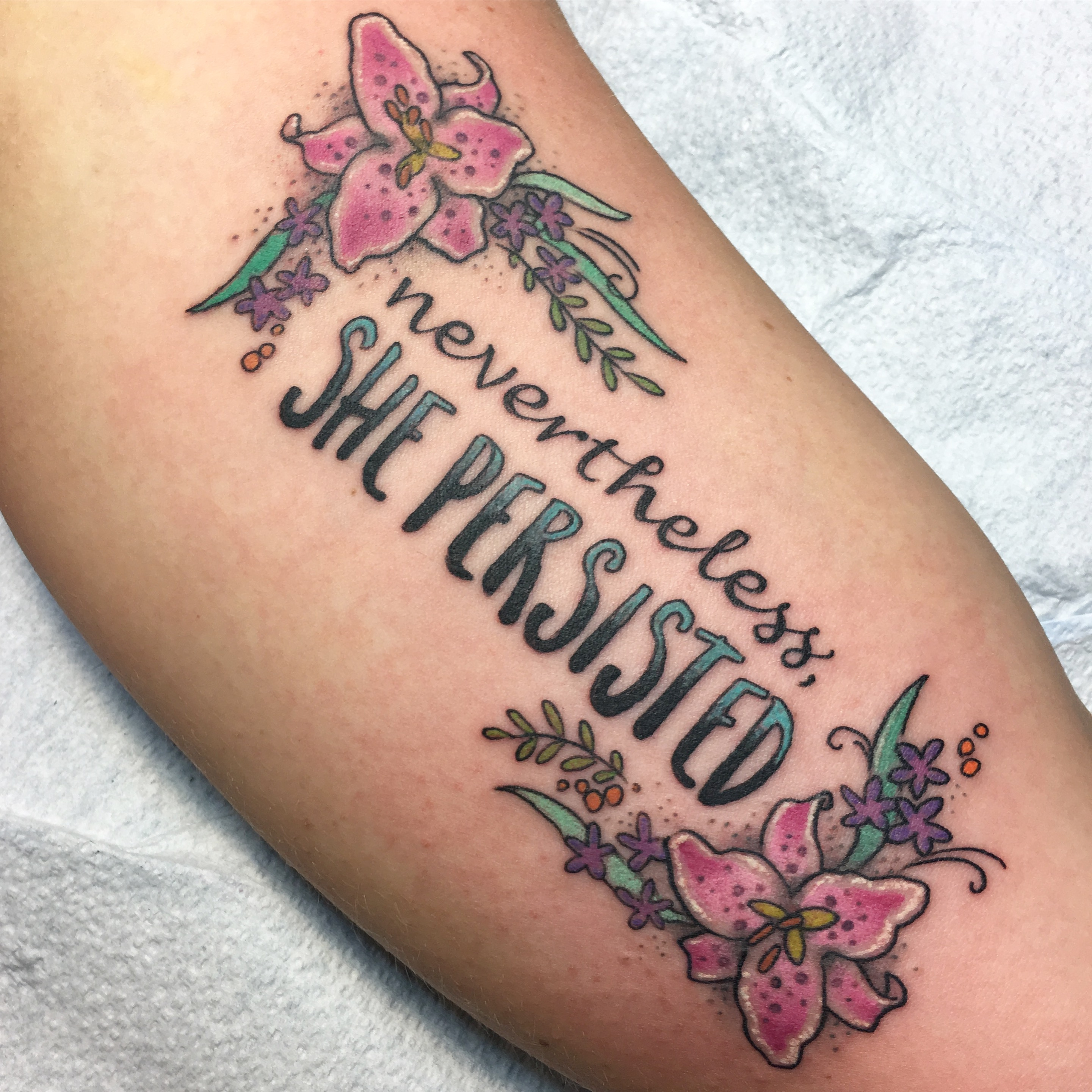 "Nevertheless, she persisted" by tattoo artist Erica Flannes